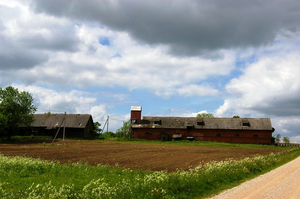 Barn and stables in Padauguvėlė manor, Kaunas district, Lithuania